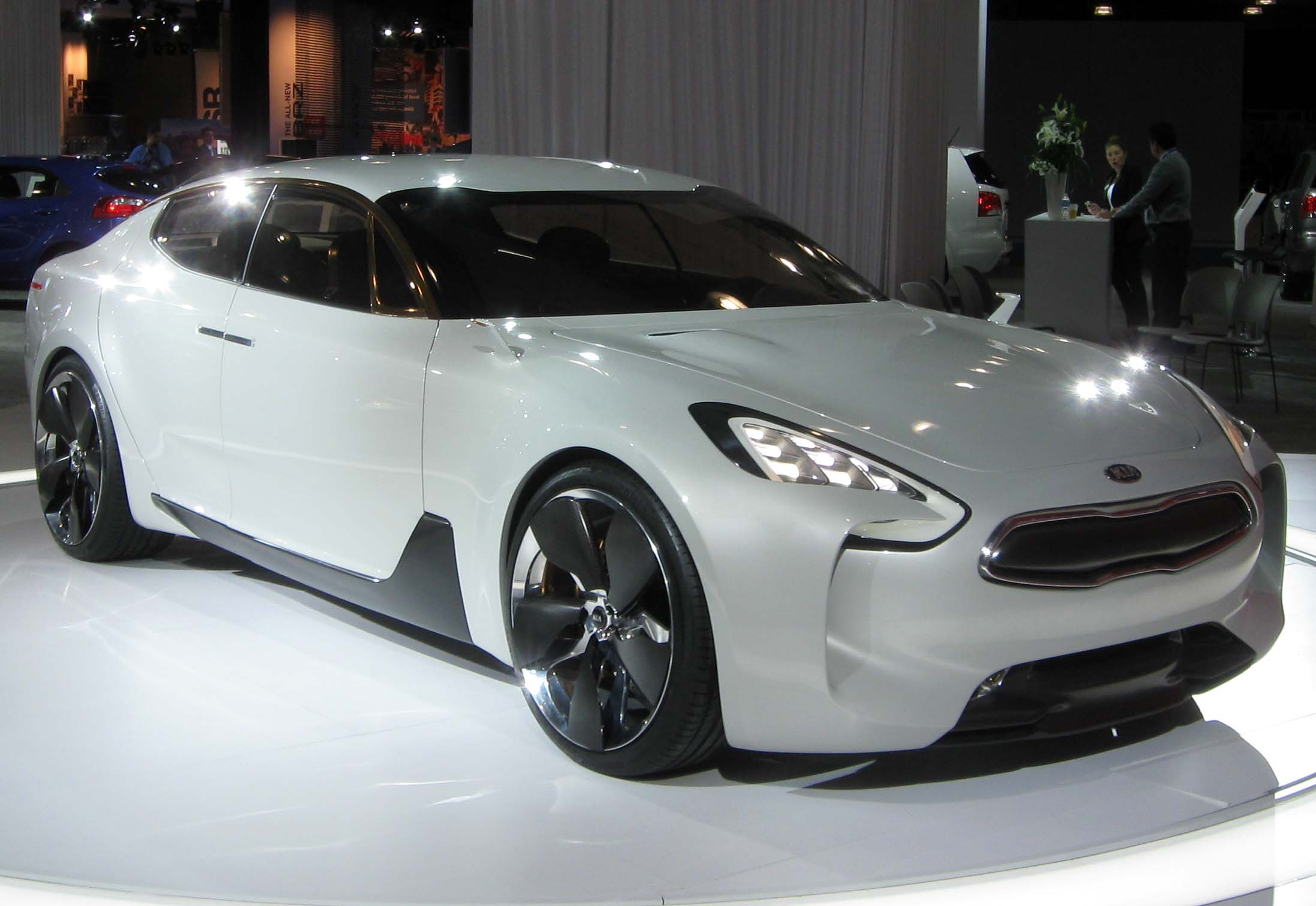 Kia GT concept photographed at the 2012 New York International Auto Show.